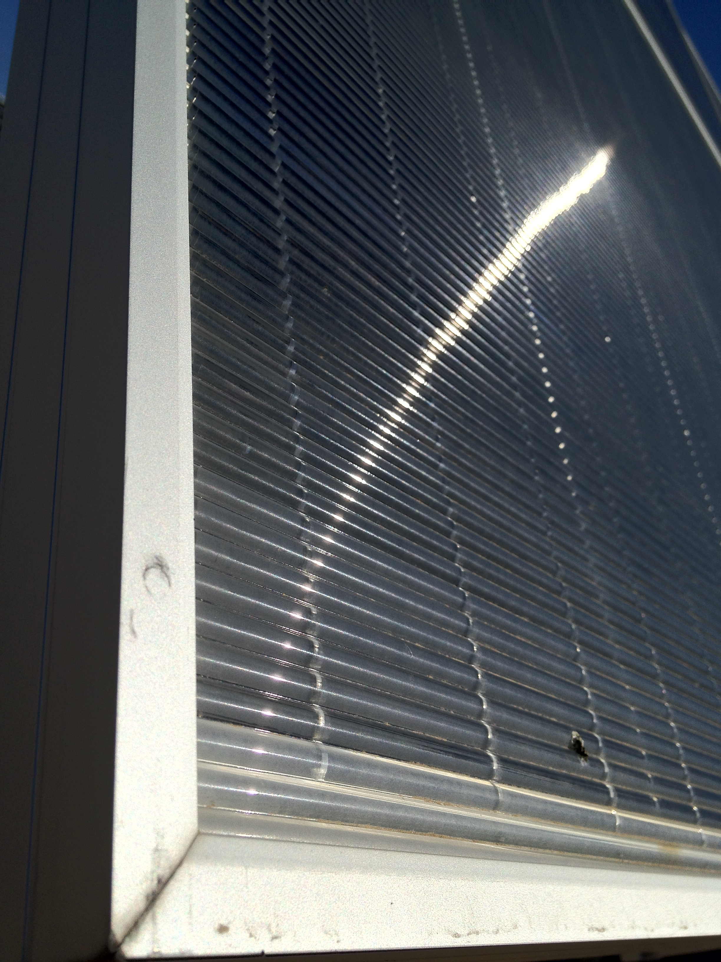 An example of Low Concentrated Photovoltaic lenses on the surface of photovoltaic cells